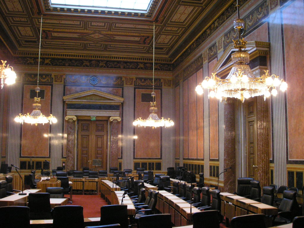 Image of the interior of the parliament building in Vienna. Constructed by Baron Theophil von Hansen.